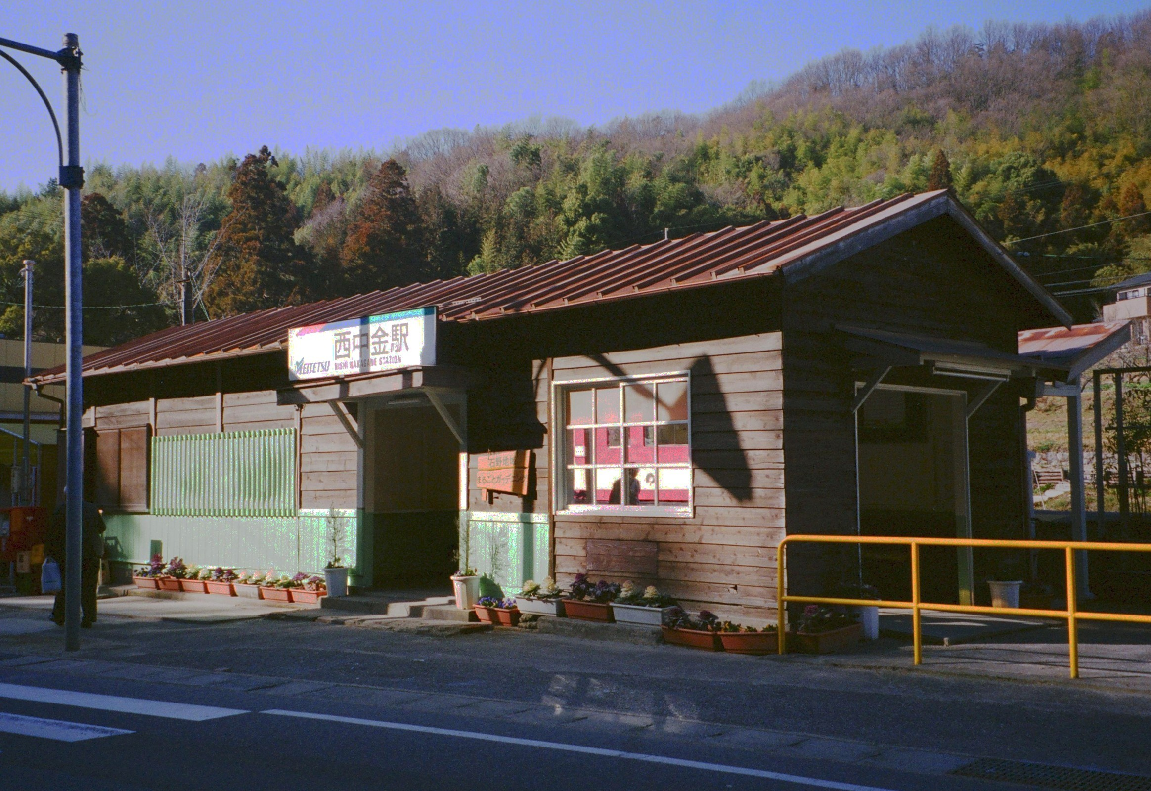 Nagoya Railroad Mikawa Line Nishi-nakagane-station(Japan,Aichi prefecture,Toyota city). See also Ja:西中金駅 for more information(written in Japanese). 名鉄三河線の西中金駅の駅舎。 2004年4月1日に猿投－当駅間の営業廃止により廃駅となる。 駅の所在地は愛知県豊田市中金町。